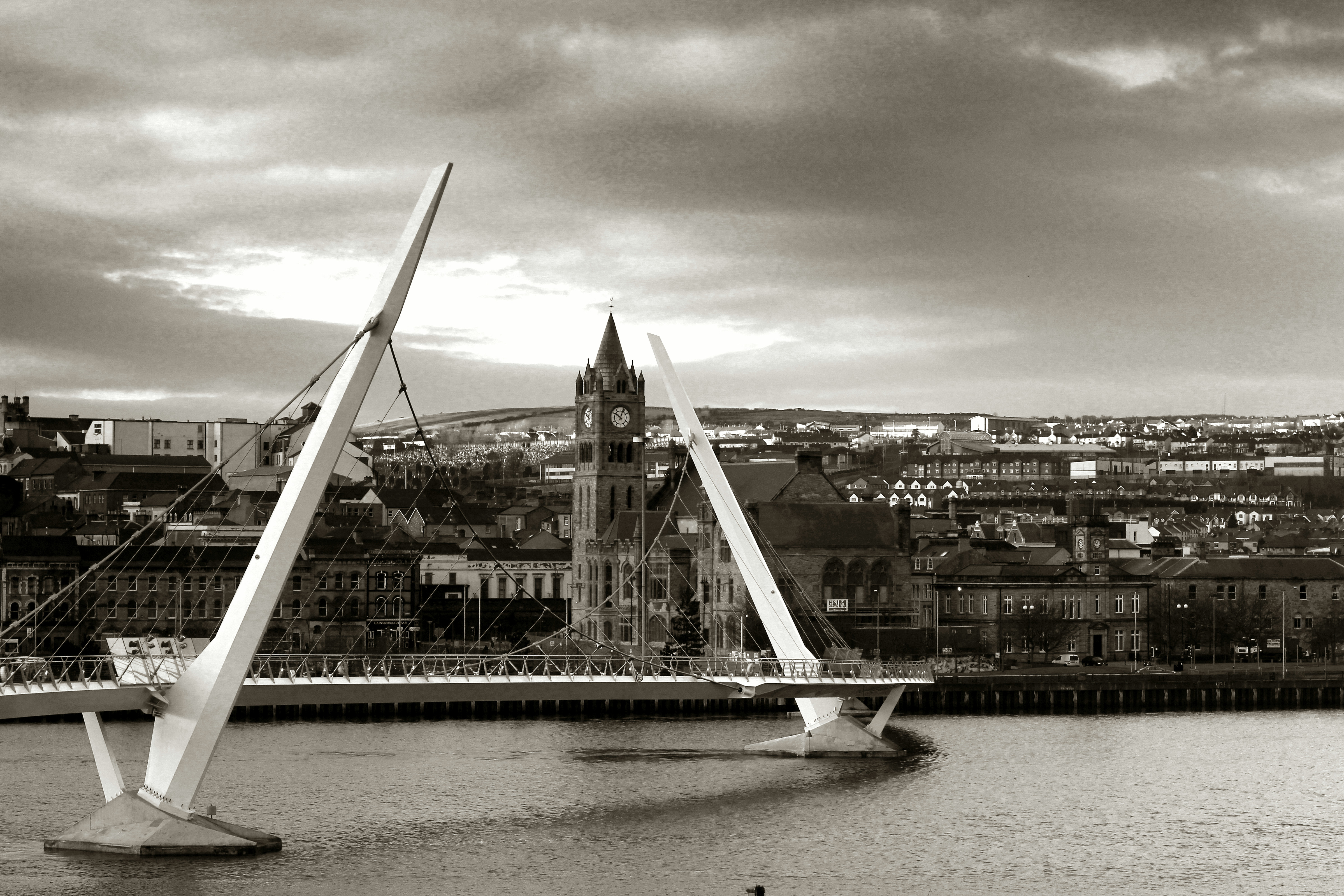 view of derry city & peace bridge from Ebrington Barracks